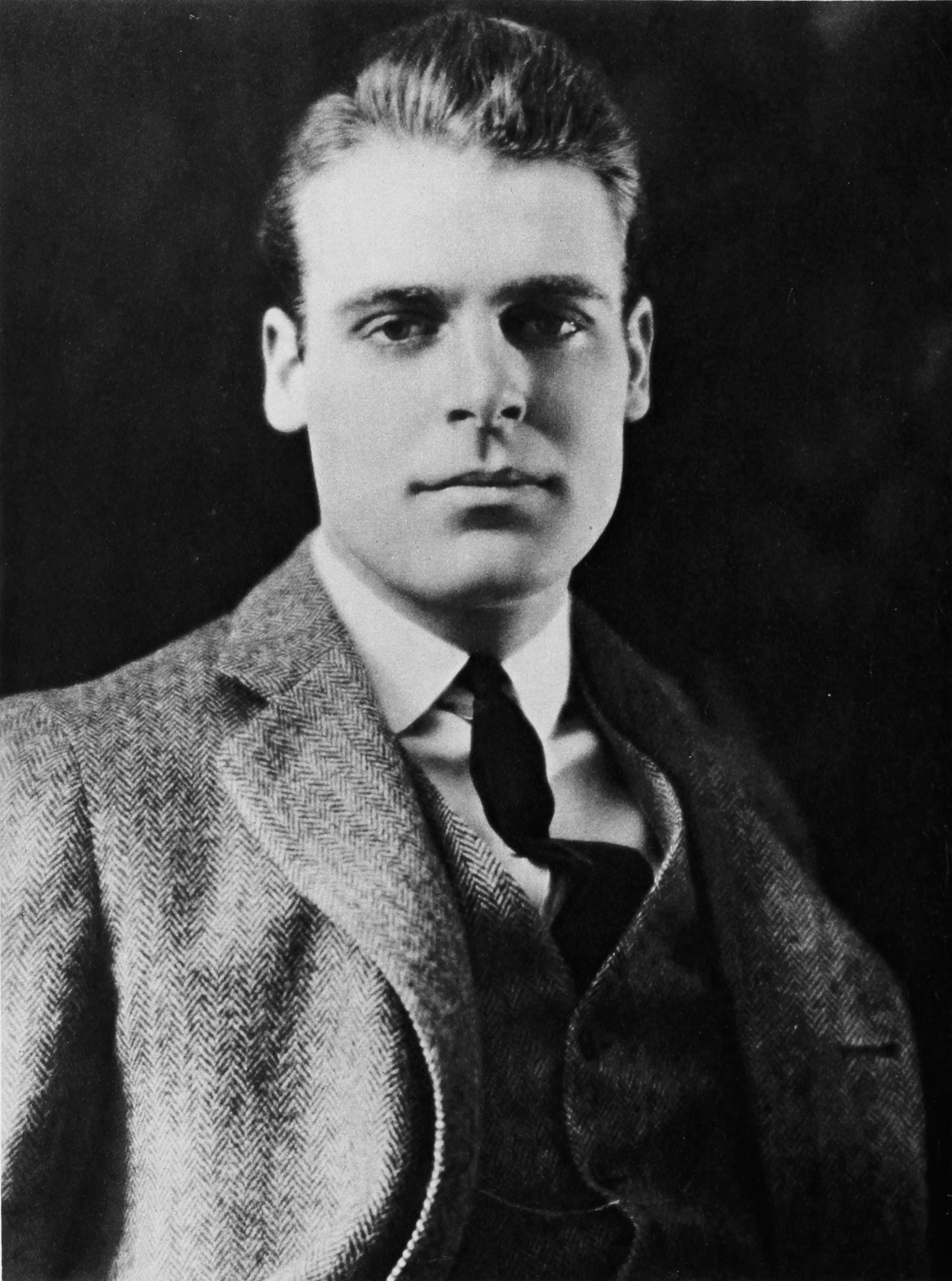 Actor Ralph Graves on page 14 of the September 1921 Photoplay.